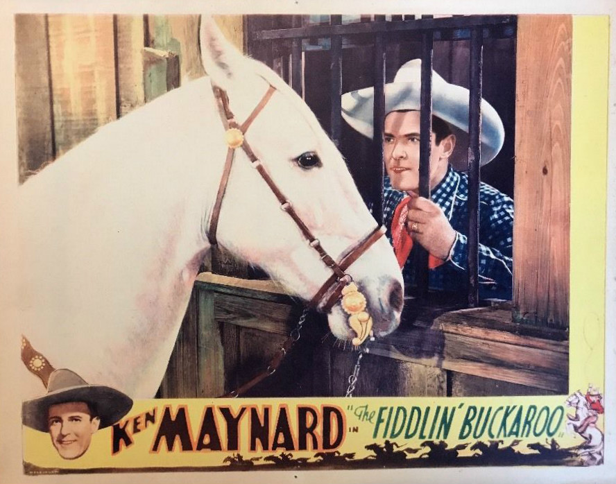 Lobby card for the 1933 film The Fiddlin' Buckaroo. Pictured are Ken Maynard and his horse, Tarzan. I couldn't read the text at lower left of the card, so renewal searches were done in both film and artwork for the years 1960 and 1961. There were no listings for the title in film nor any for "Universal" in artwork. There's no evidence of the film and its related items still under copyright.